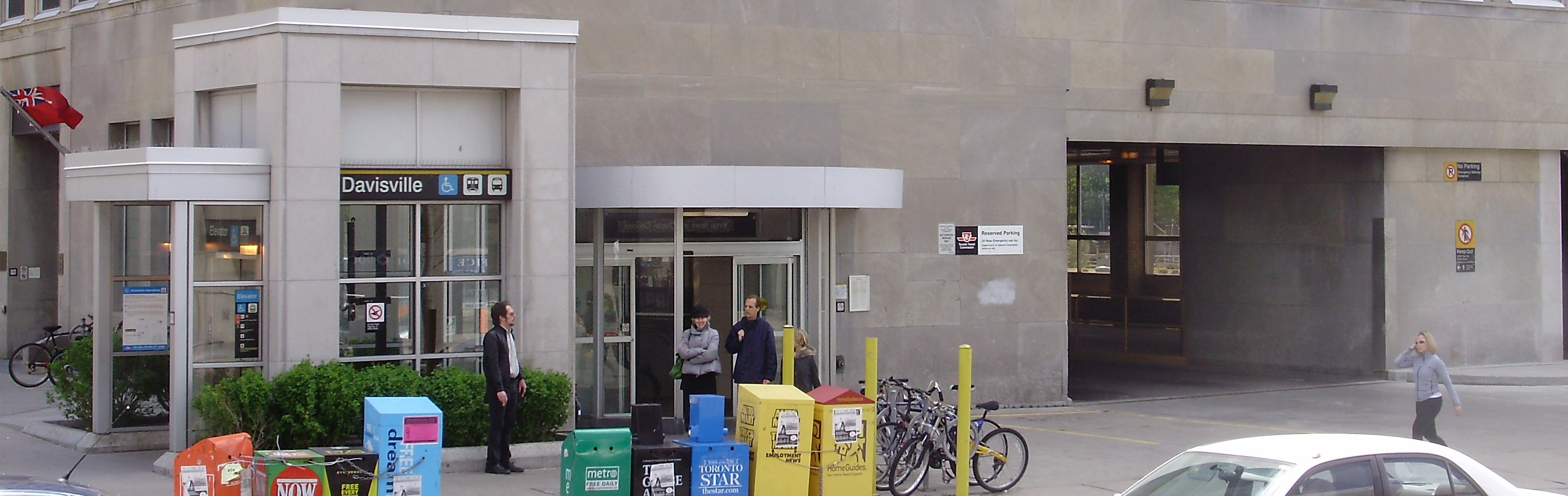 The main entrance of the Toronto Transit Commission's Davisville station in Toronto, Ontario, Canada.